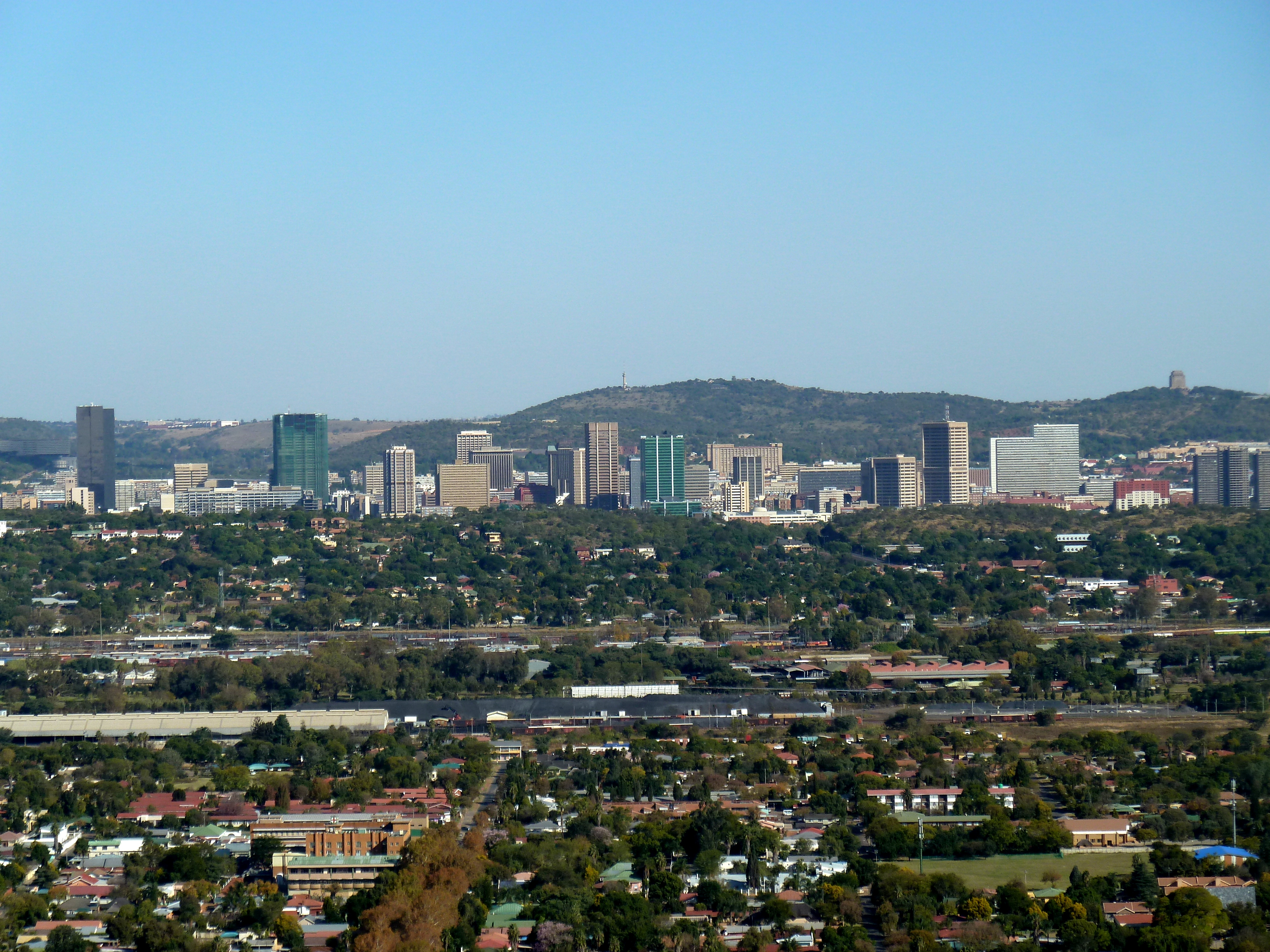 View on Pretoria CBD, as seen from Fort Wonderboom